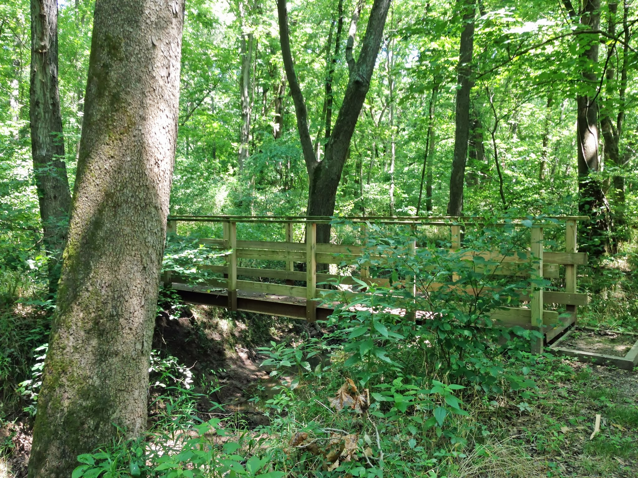 Bridge on the Spice Bush Trail in Robertsville State Park, Missouri